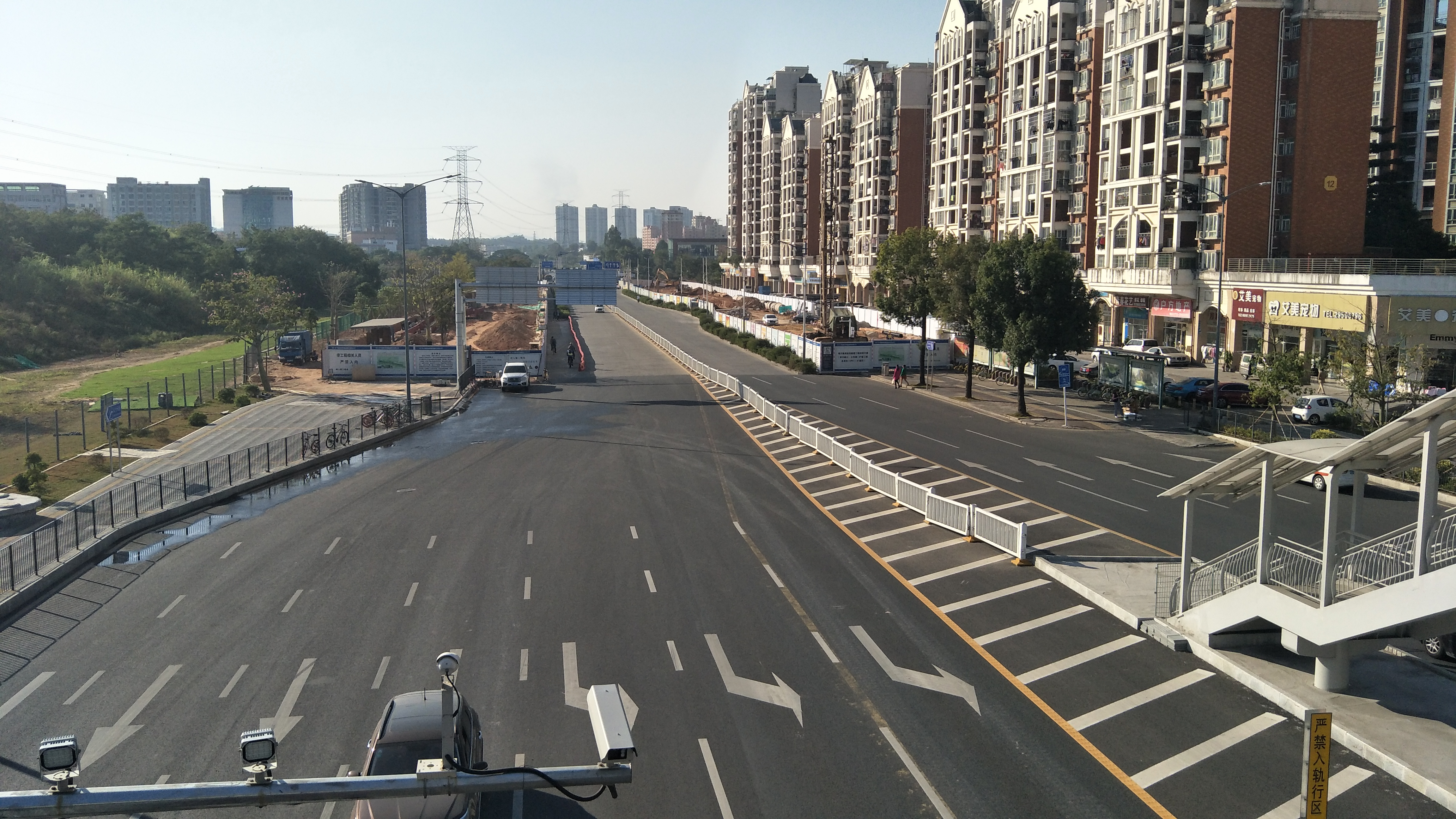 West platfrom of Dahe Station,SZTRAM